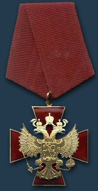 Russian Federation, Order Of Merits To The Fatherland 4th class. Established by Decree No. 442 of 2 March 1994. Amended by Decree No. 19 of 6 January 1999. Awarded for "outstanding contributions to the state, labour achievements and significant contributions to the defence of the State". Crossed golden swords are worn on the suspension when awarded for distinction in combat.